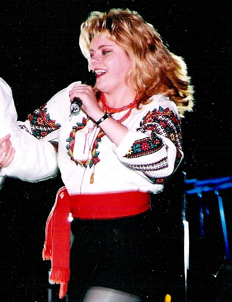 Picture was taken during the concert show in 1998